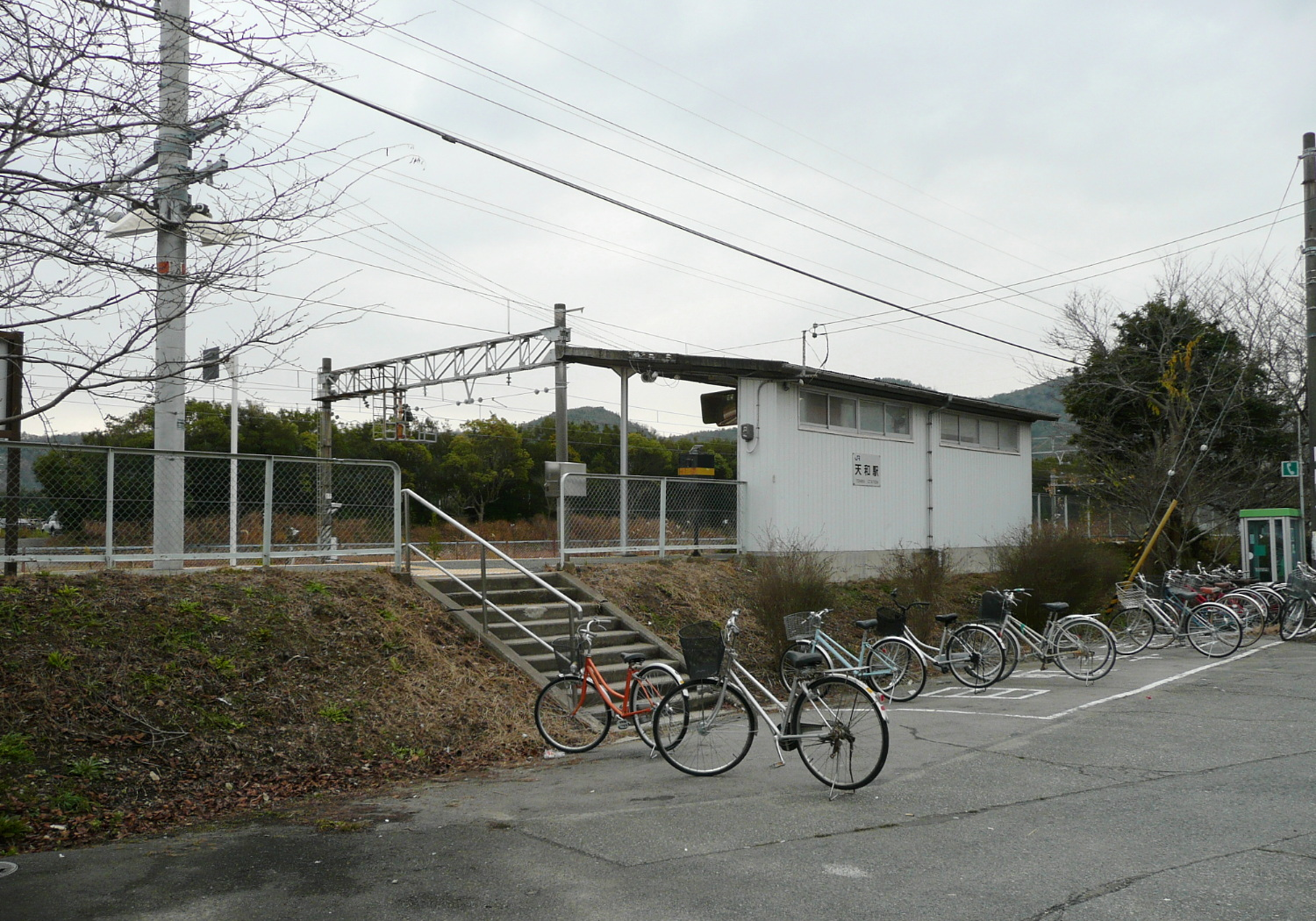 West Japan Railway Ako Line Tenwa Station. / 赤穂線天和駅